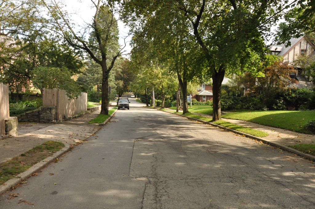 View down Monadnock Road, part of the Monadnock Road Historic District of Newton, Massachusetts.